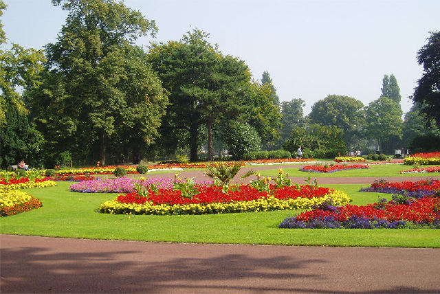 Formal flower beds, West Park, Wolverhampton. A magnificent display of colour in the formal flower beds in West Park, Wolverhampton.